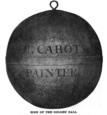 Sign of the Golden Ball, a tavern on Merchants Row, Boston, Massachusetts